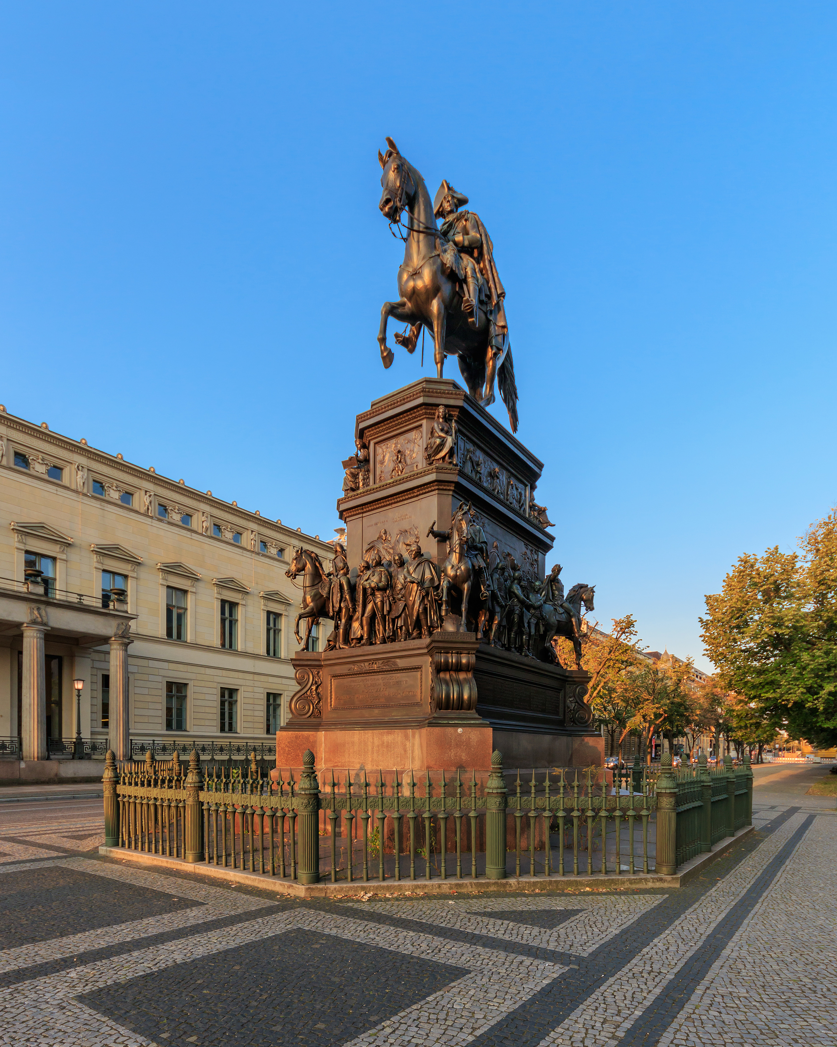 Equestrian statue of Frederick II in Berlin (Germany)